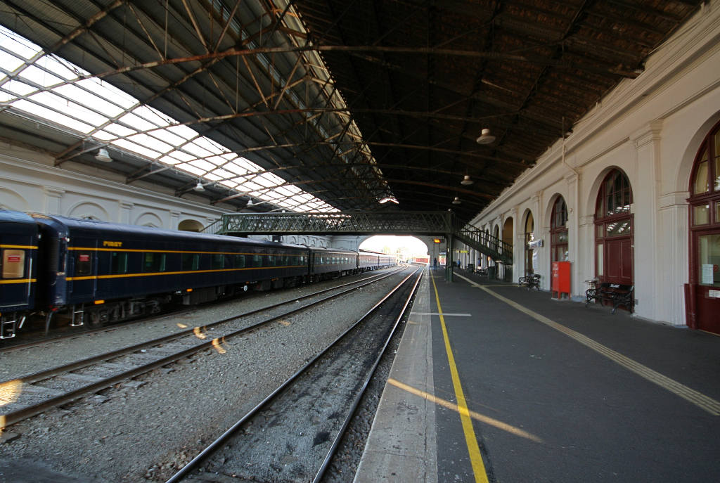 Ballarat railway station train hall, Victoria, Australia